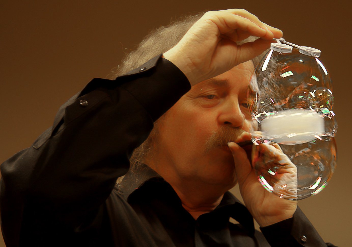 This is a photo of the amazing bubble master Tom Noddy at a lecture at the Portlander Inn in Portland, Oregon. Tom the guy who started bubble magic as we know it today. Tom is a terrific guy, both funny and knowledgeable about the math and physics behind bubbles.